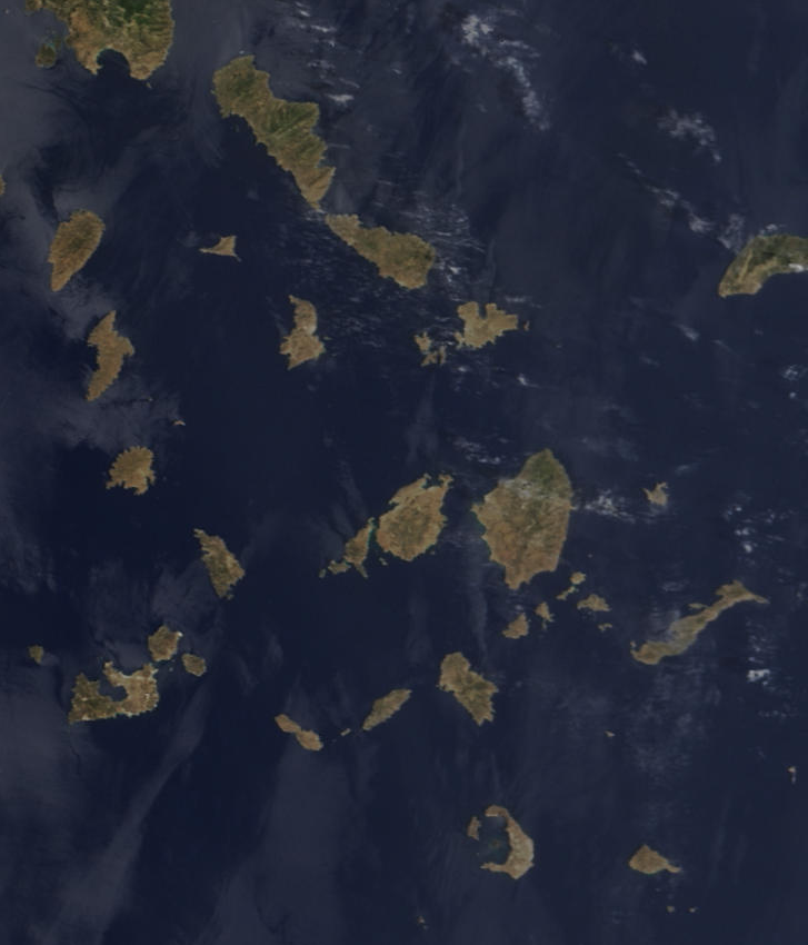 Satellite image of the Cyclades